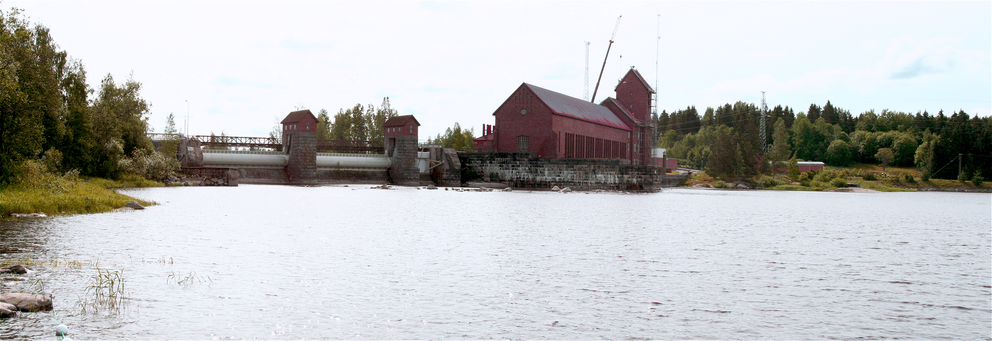 Power plant of Äetsä in Sastamala, Finland, in the river Kokemäenjoki